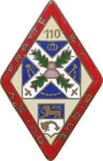 Regimental badge of the 110th Infantry Regiment (1939-1940 France).